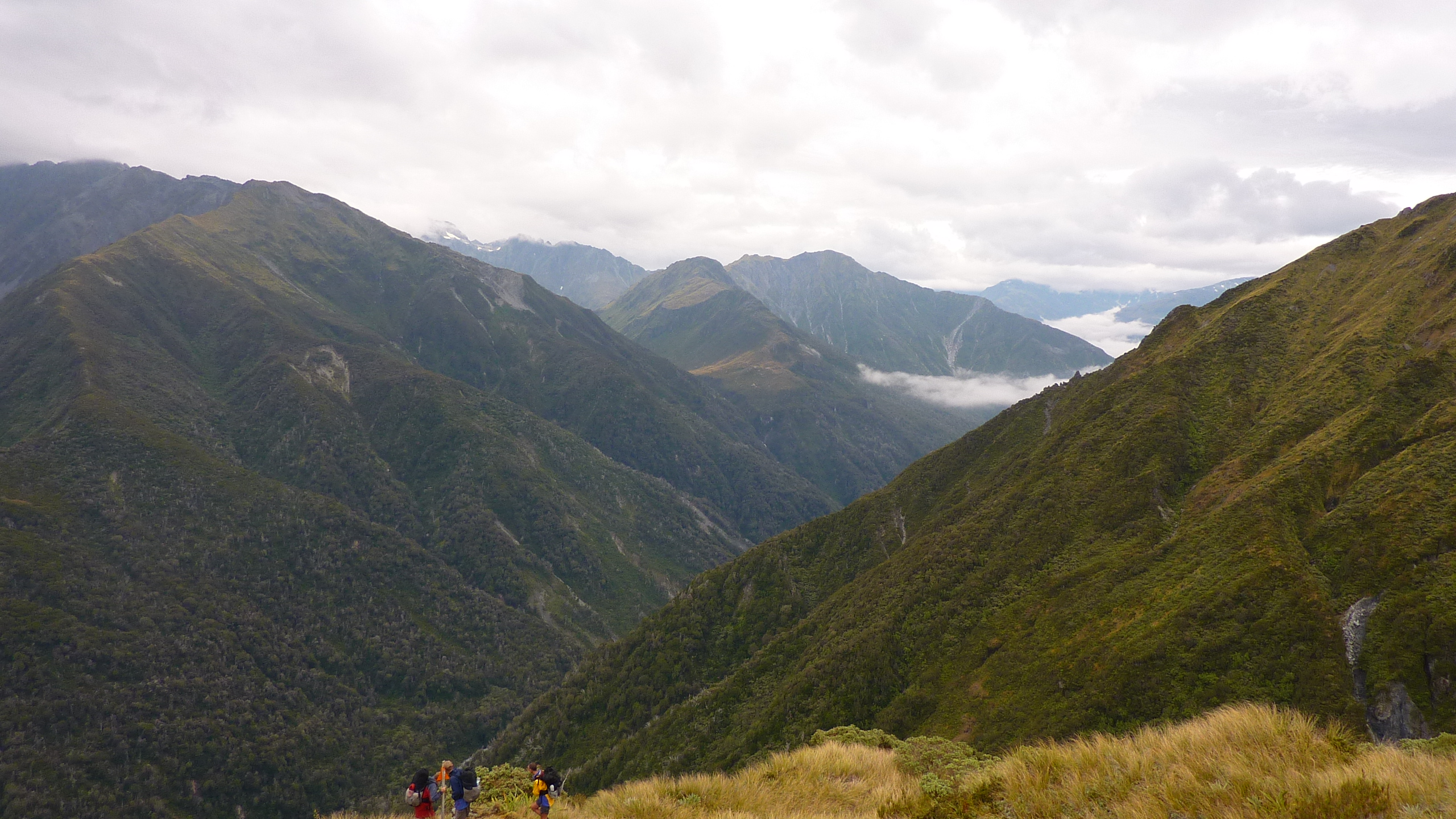 Mungo River Valley - Sir Robert Creek Catchment high on very Left - Hokitika River coming in from LHS of Grassy Hill in photo Center